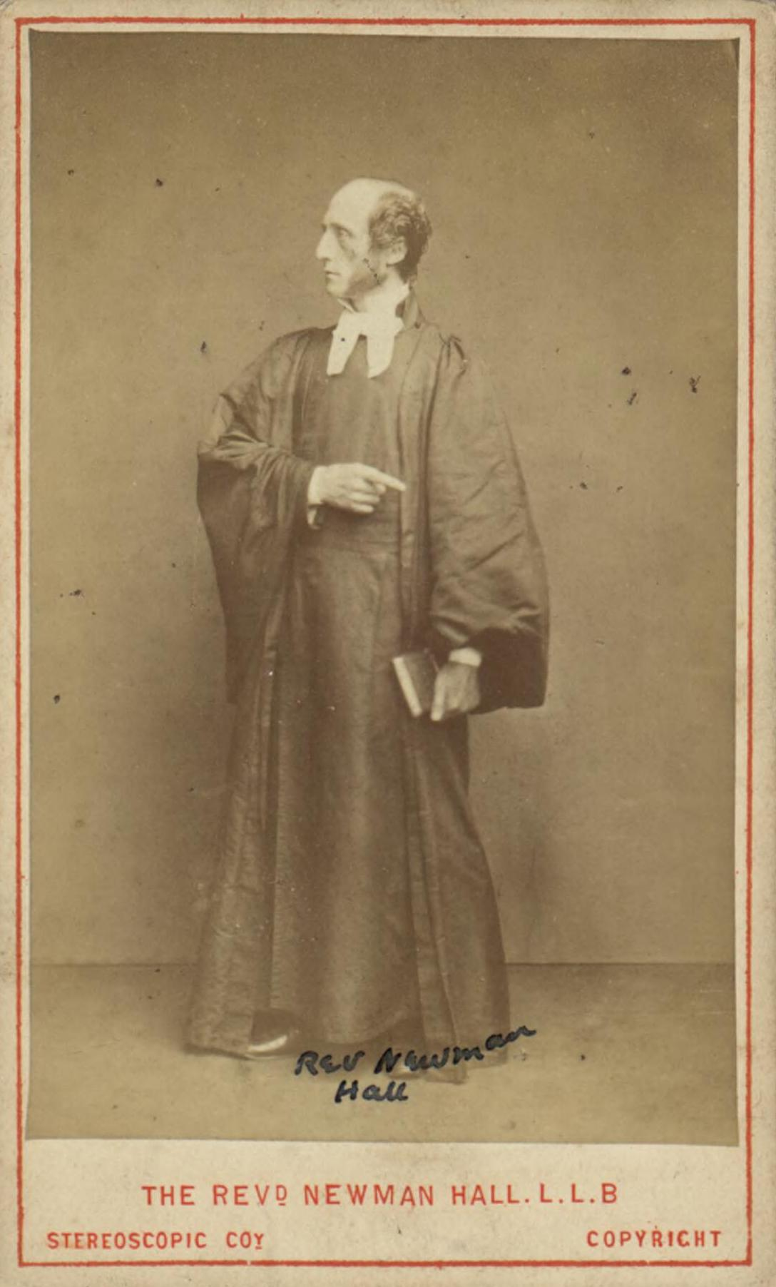 A portrait from the Welsh Portrait Collection at the National Library of Wales. Depicted person: Christopher Newman Hall – British divine